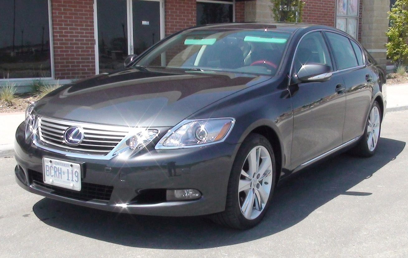 From Tino Rossini's Reviews.